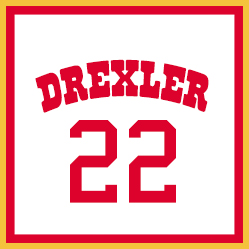 Clyde Drexler retired jersey